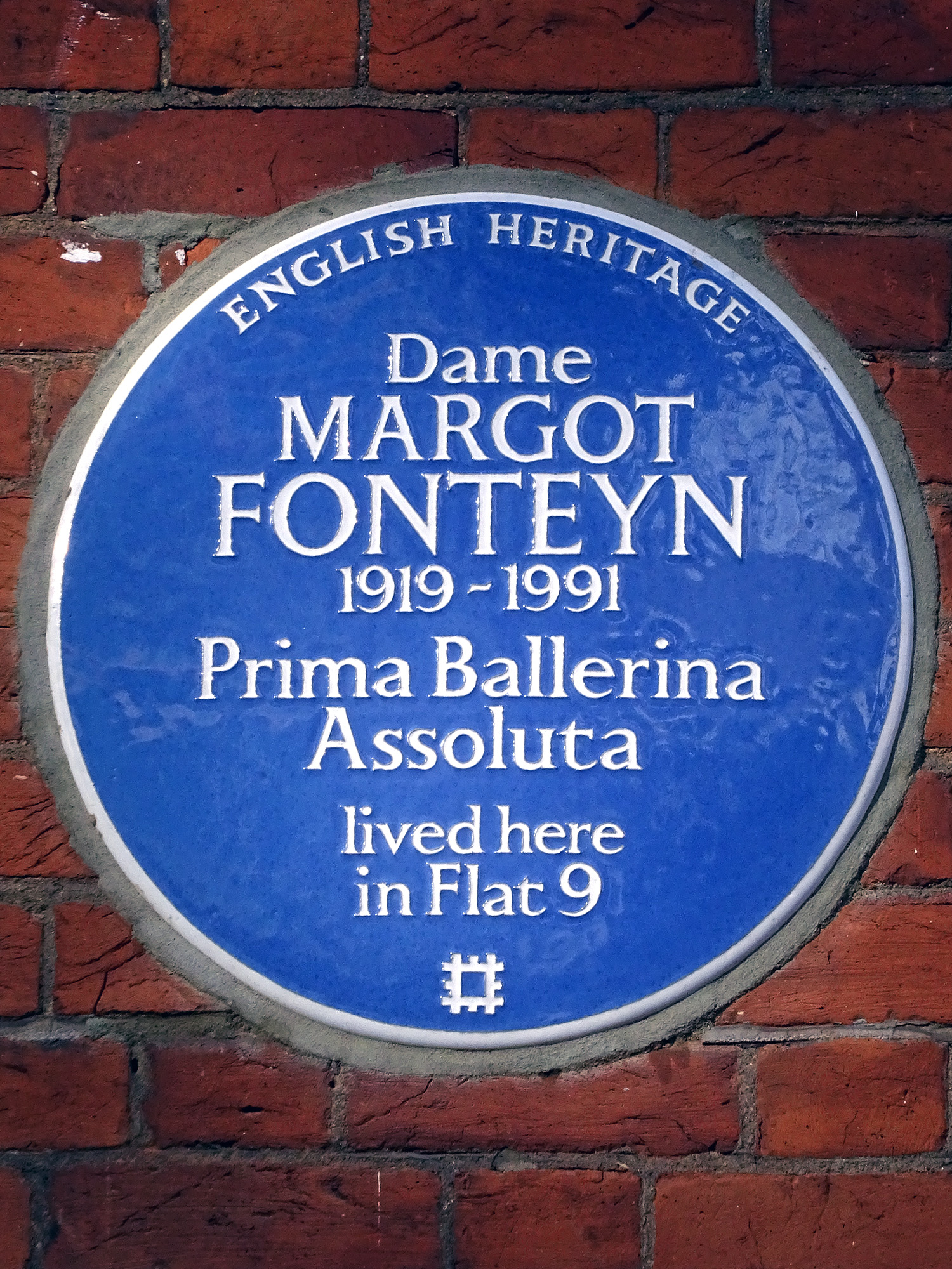 Blue plaque erected on 7th June 2016 by English Heritage at 118 Long Acre, Covent Garden, London WC2E 9PA, City of Westminster